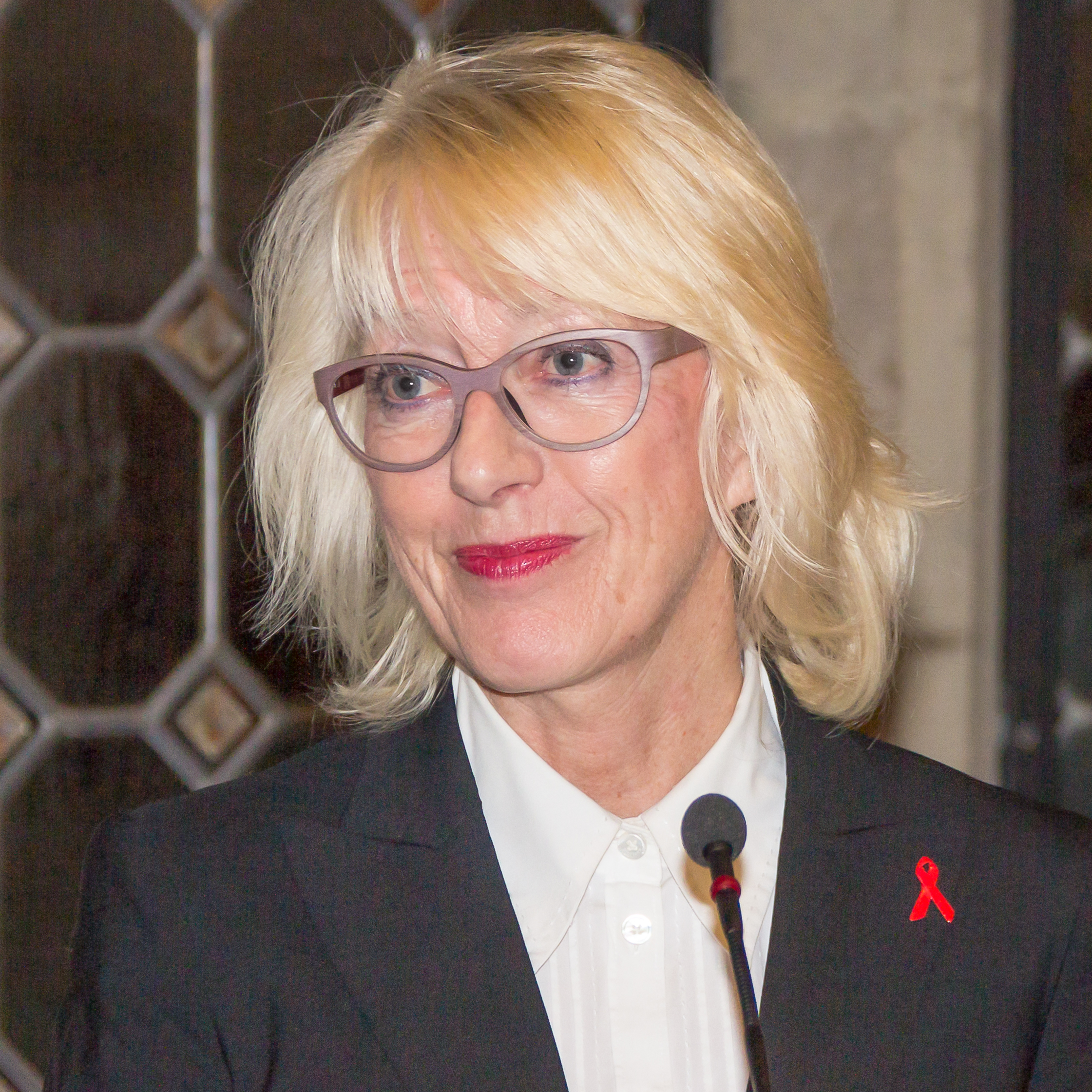 Reception for participants of the council of the Ordo Supremus Militaris Templi Hierosolymitani in the historic town hall of Cologne, Germany Photo: Mayor Elfi Scho-Antwerpes